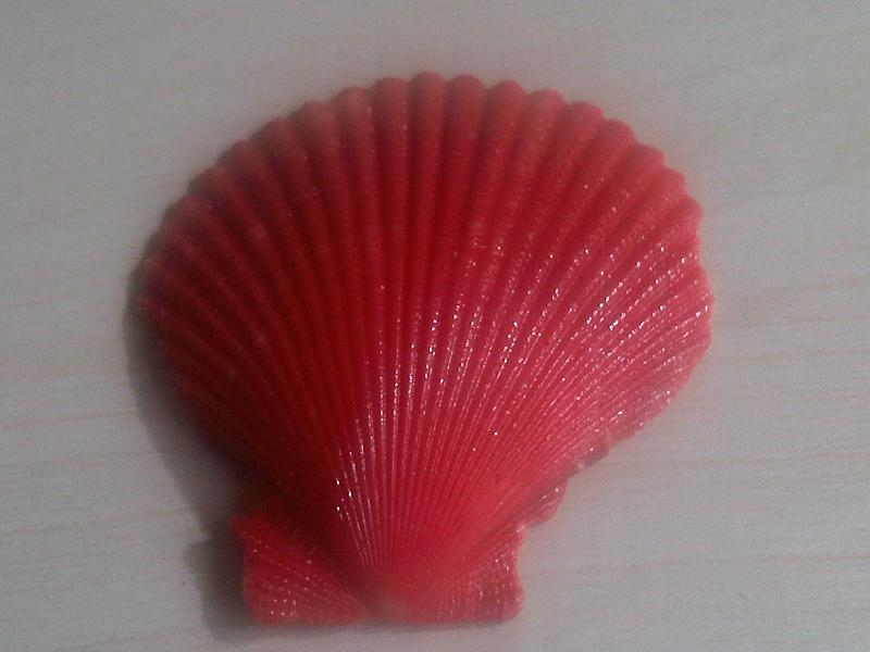 Mimachlamys sanguinea - syn: Chlamys senatoria seen from above, in London, England.